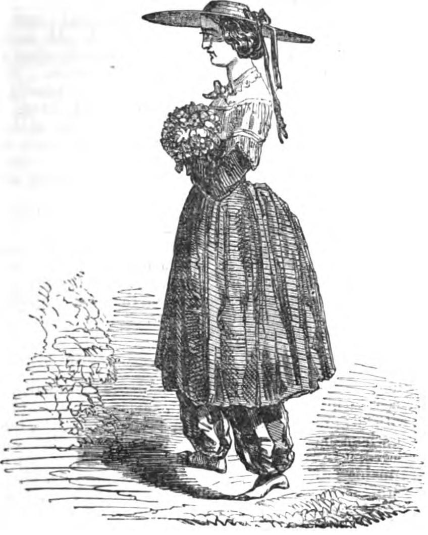 Bloomer costume illustration from Robert Chambers's 1864 publication The Book of Days. The illustration appeared in connection with a short essay about Amelia Bloomer and the style of reform dress that she first adopted in 1851.